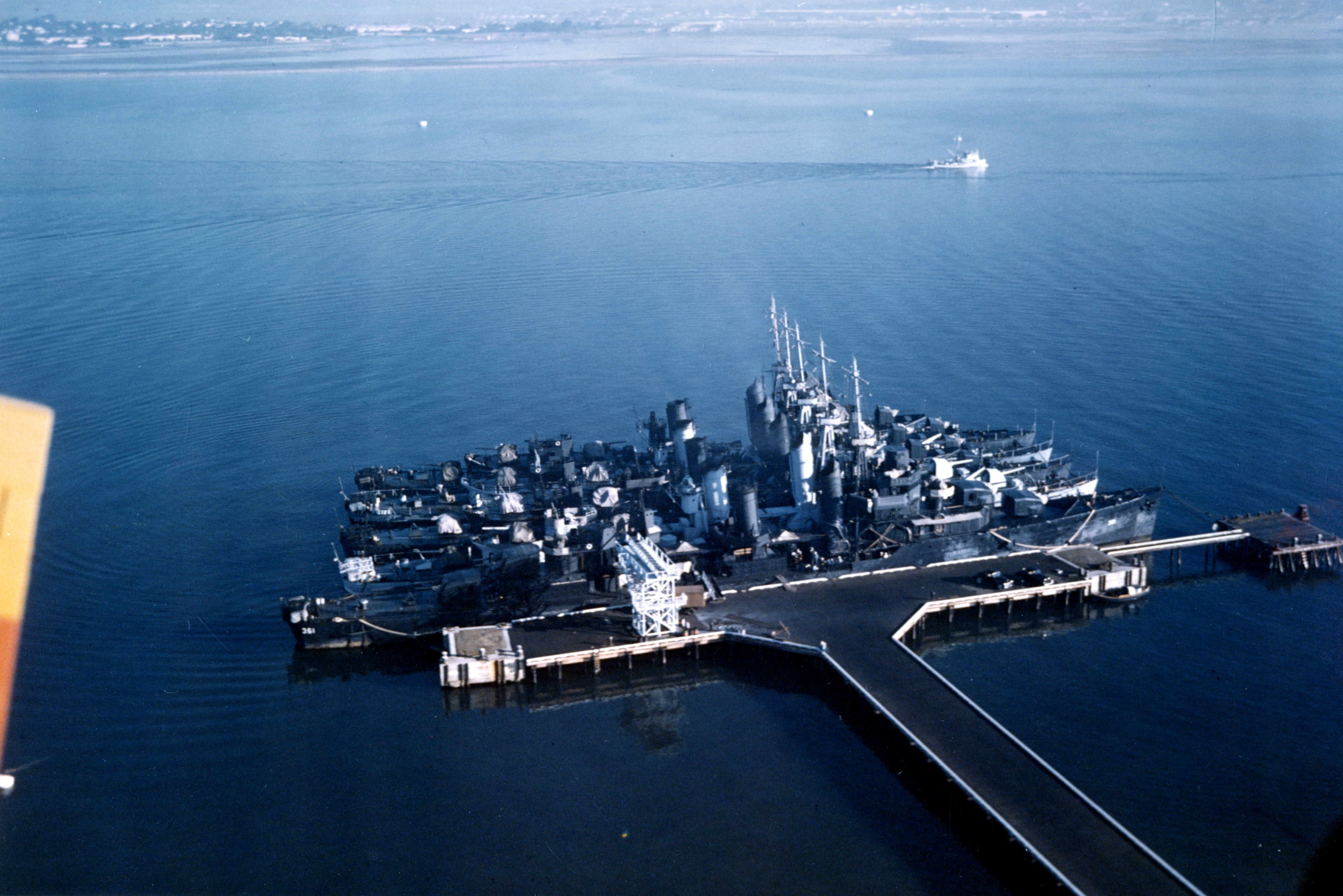 U.S. Navy Destroyer Division Six, Destroyer Squadron Three (DesDiv 6, DesRon 3) at San Diego, California (USA), in October 1941. Ships are (from inboard): USS Clark (DD-361), Squadron flagship; USS Case (DD-370), Division flagship; USS Cummings (DD-365); USS Shaw (DD-373); USS Tucker (DD-374). Note that these destroyers are painted in at least two different camouflage schemes. A tuna boat is passing in the background.